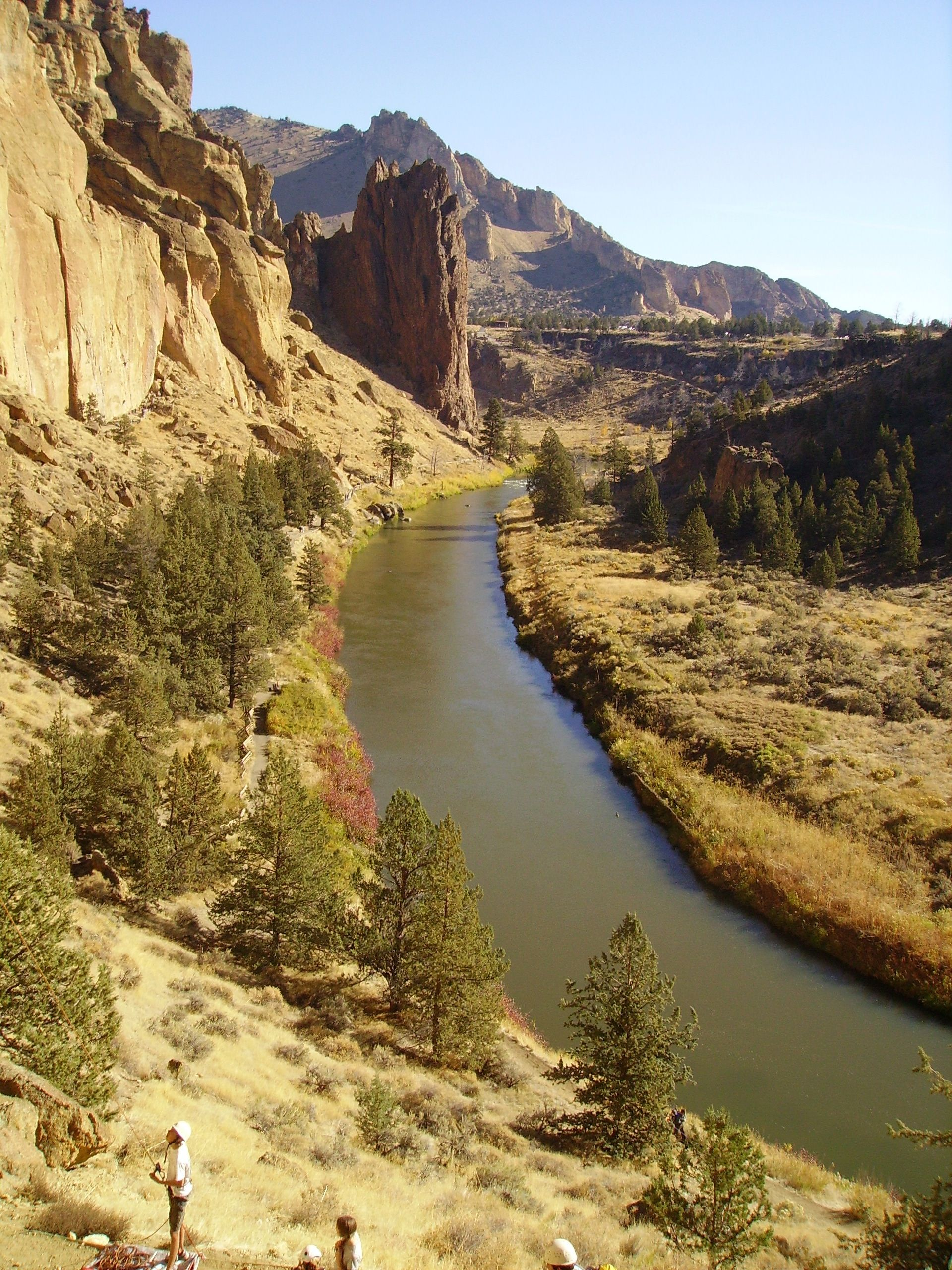 Photo I took of Smith Rock State Park, overlooking the Crooked River.